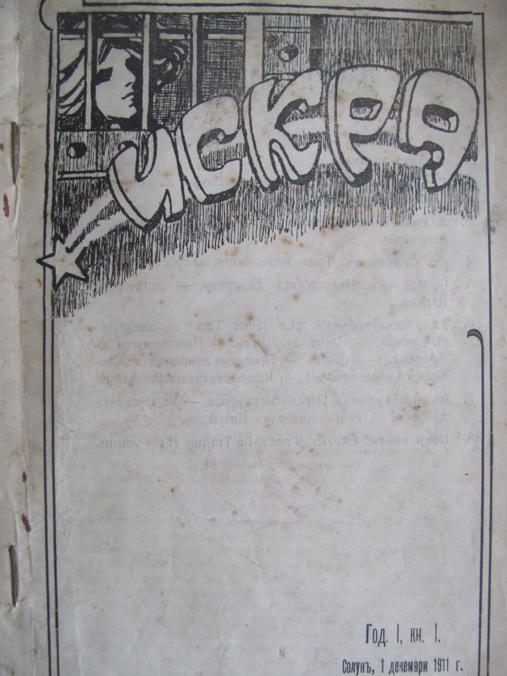 Iskra 1 December 1911